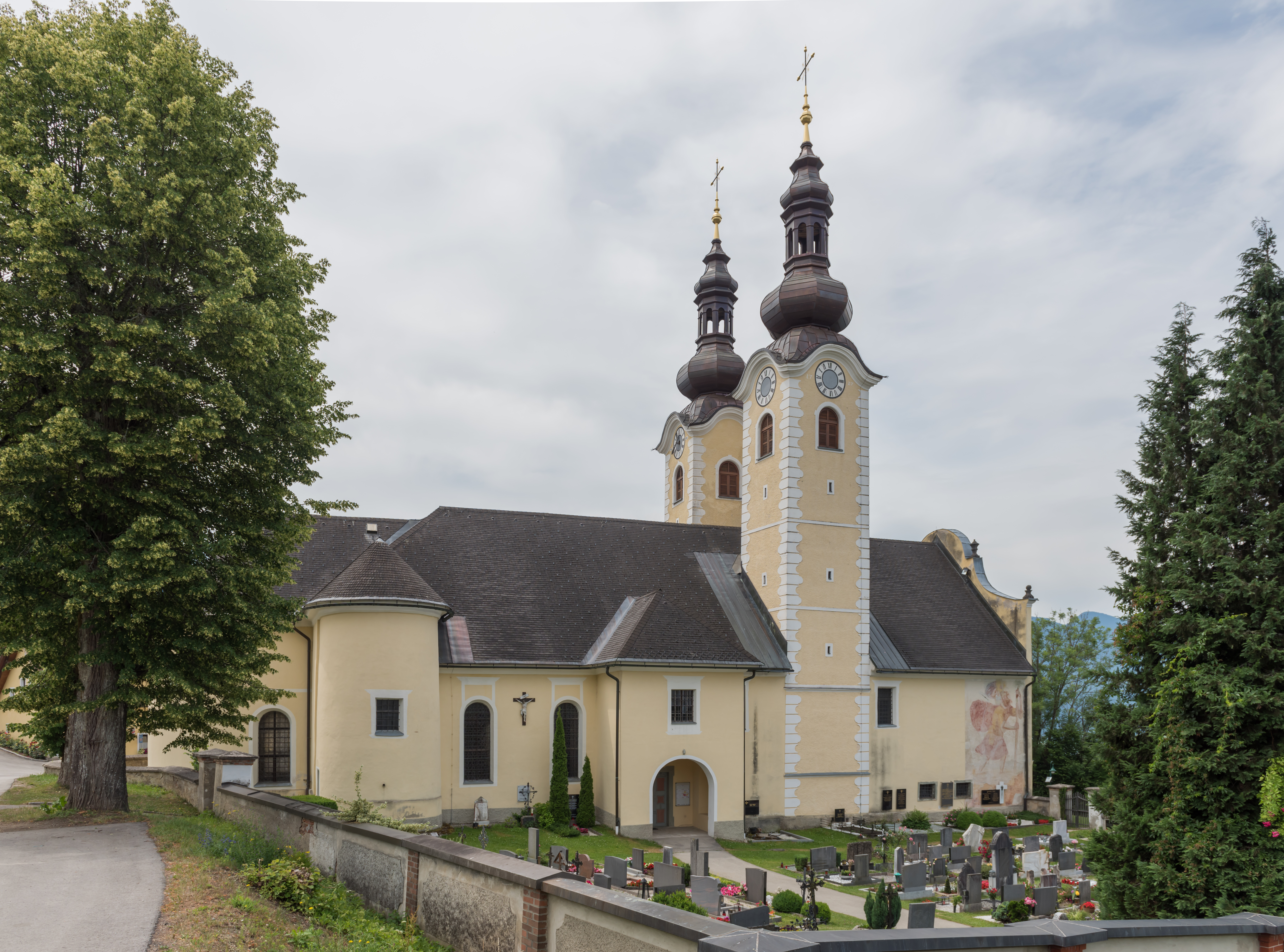 Pilgrimage and parish church Assumption of Mary on Kirchenstrasse #61, municipality Maria Rain, district Klagenfurt Land, Carinthia, Austria, European Union